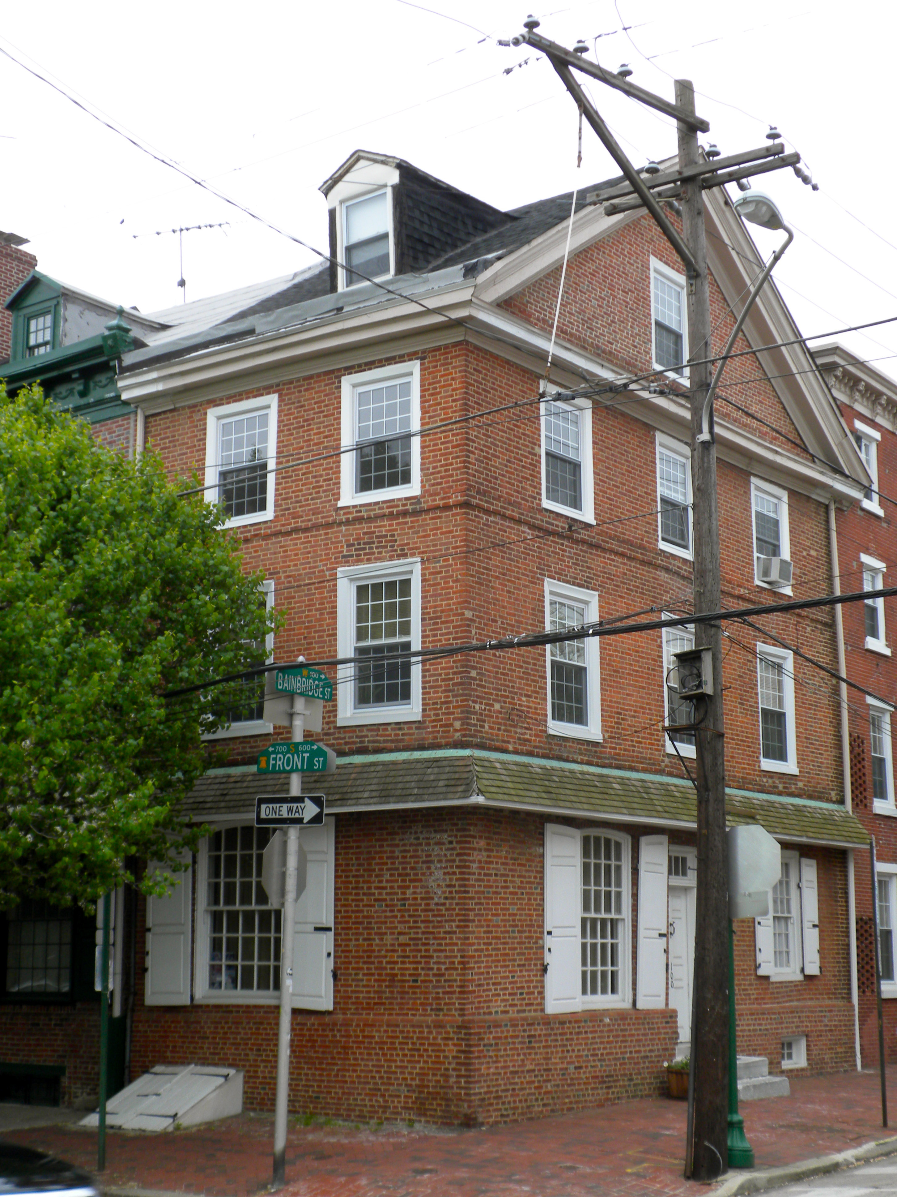 Widow Maloby's Tavern in Philadelphia on NRHP since March 16, 1972. At 700 South Front Street (aka 100 Bainbridge as is marked on the side door). The entire block of Front Street, which has 8 house over about a 100 foot frontage, was built during the 1760s and is on the NRHP as a Historic District. This house was a tavern and is the largest building on the block, and is separately listed on the NRHP. 702 and 704 are also separately listed. To make things even more interesting, the entire block may also be part of the Southwark Historic District on the NRHP. The area was generally known as Southwark, but the northern part of Southward is now called Queen Village. At one time 2 blocks separated Front Street from the Delaware River, but now there is only a small park, which offers a good view of the battleship (New Jersey?) on the other side of the river. Photography of this block of Front Street is hampered by the big trees which cover the small houses - somebody should come back in the wintertime to rephotograph!